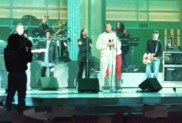 Fine Young Cannibals at the 1990 Grammy Awards. Scanned from the original 35MM film negative.